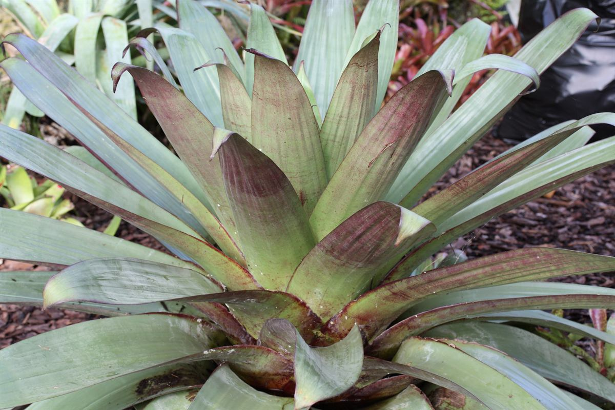 Alcantarea imperialis at Mounts Botanical, Florida